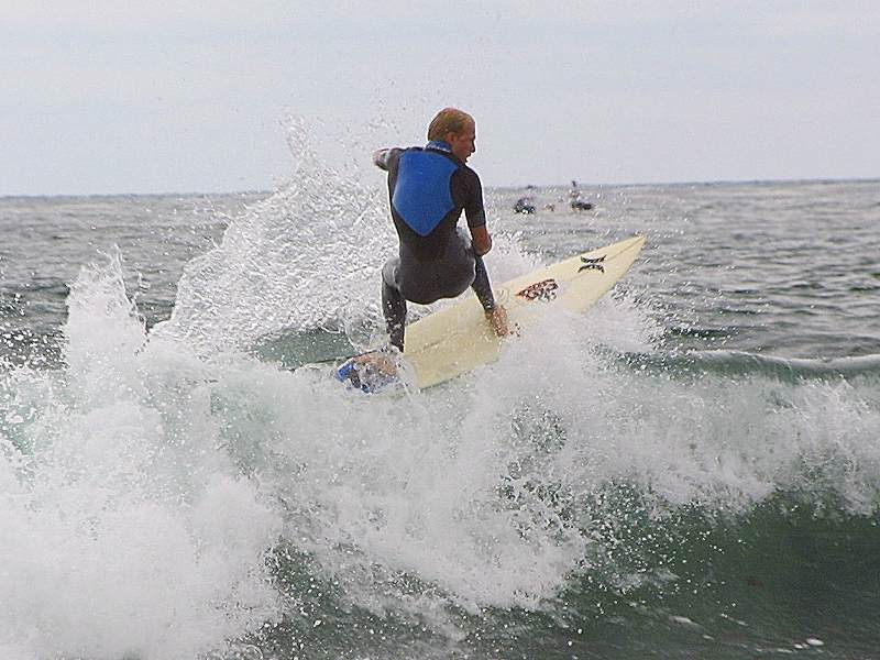 Man on a surfboard on top of a wave, turning.